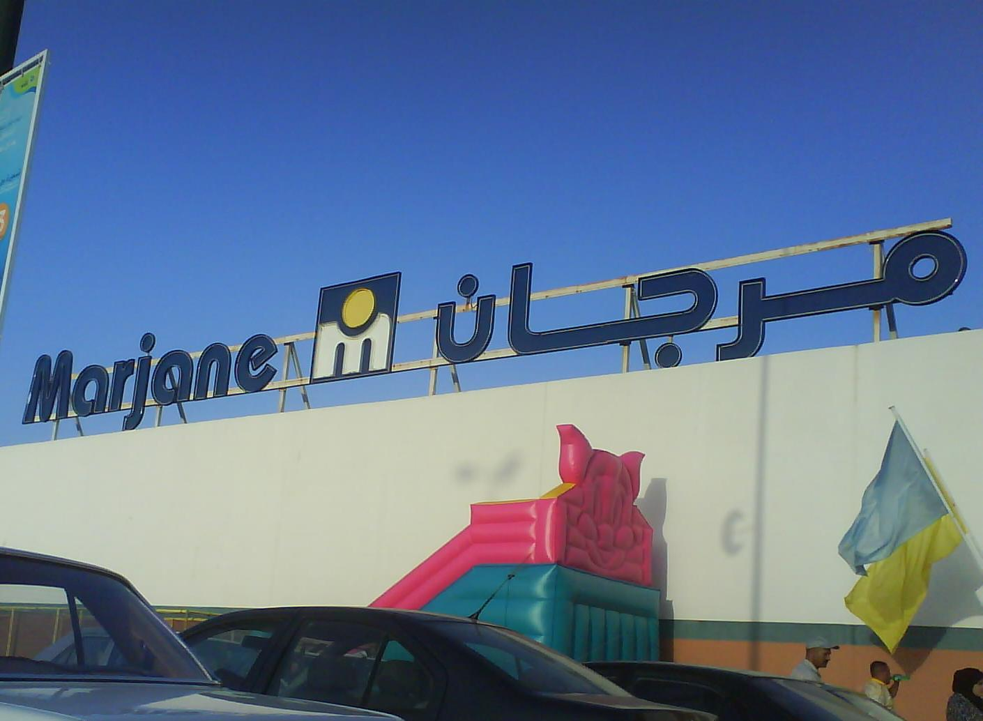 Marjane, Moroccan hypermarket.